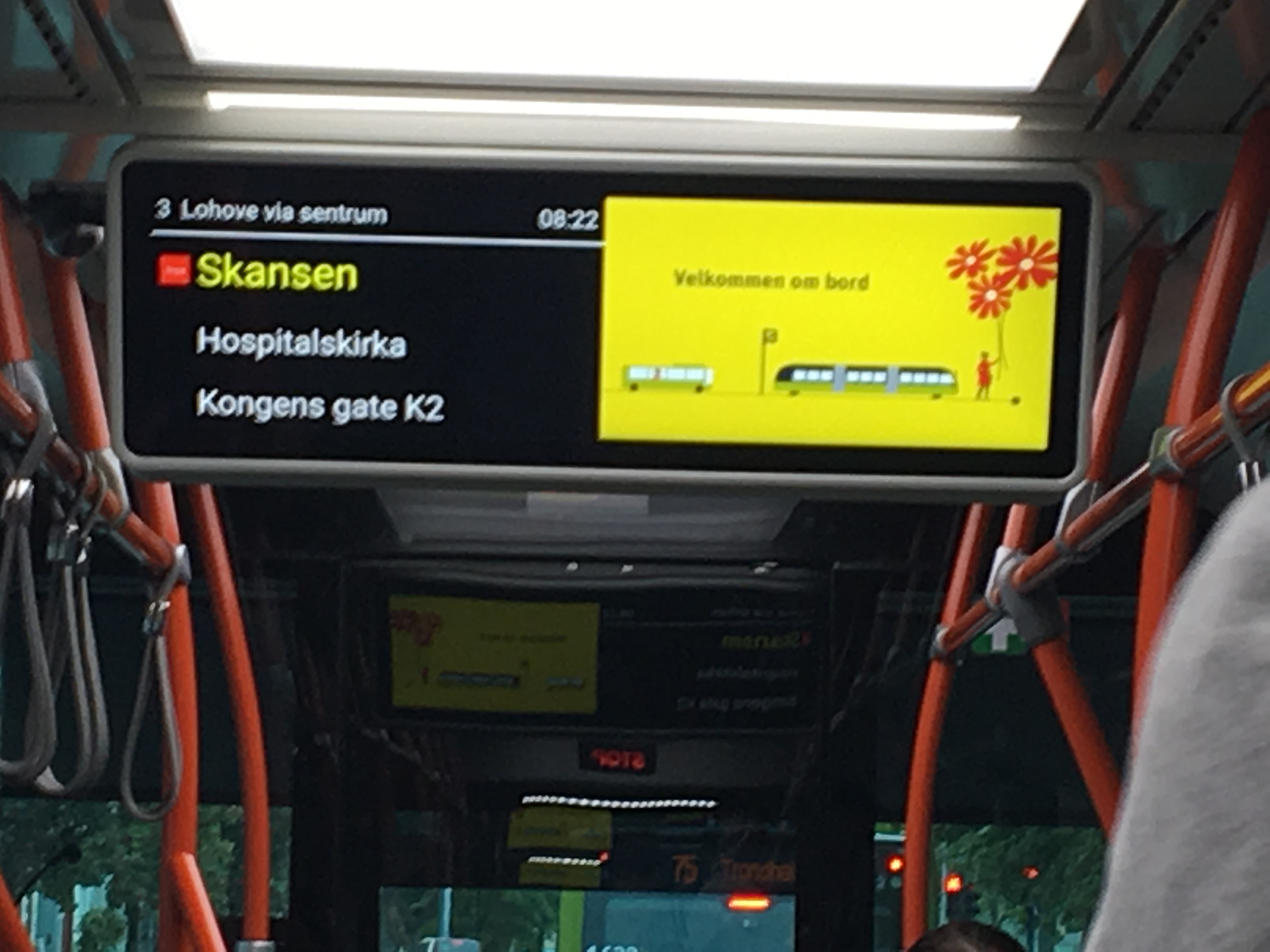 An AtB info screen in the VanHool Exquicity (Metrobus) on Line 3